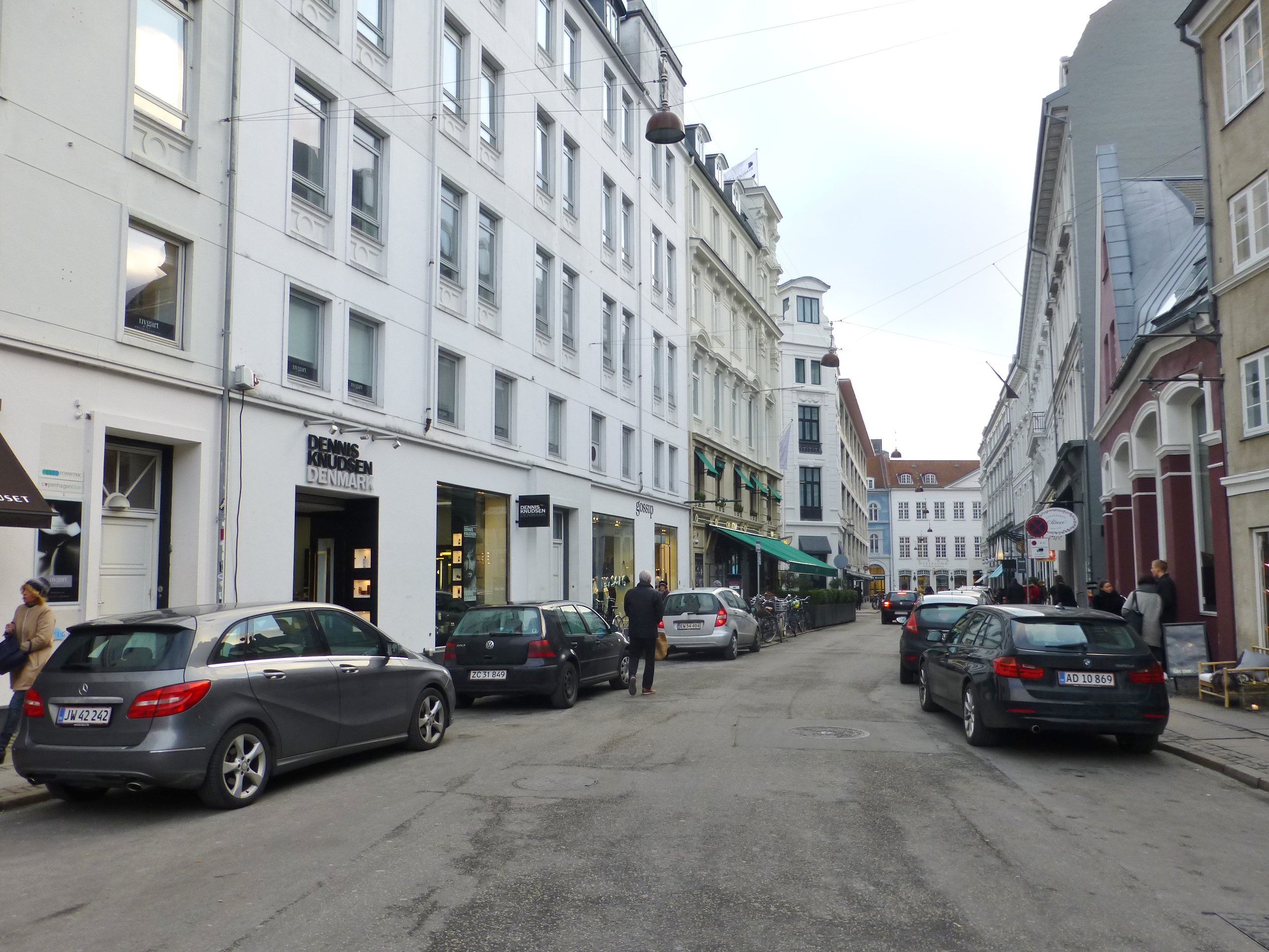 The street Ny Østergade in Indre By in Copenhagen.